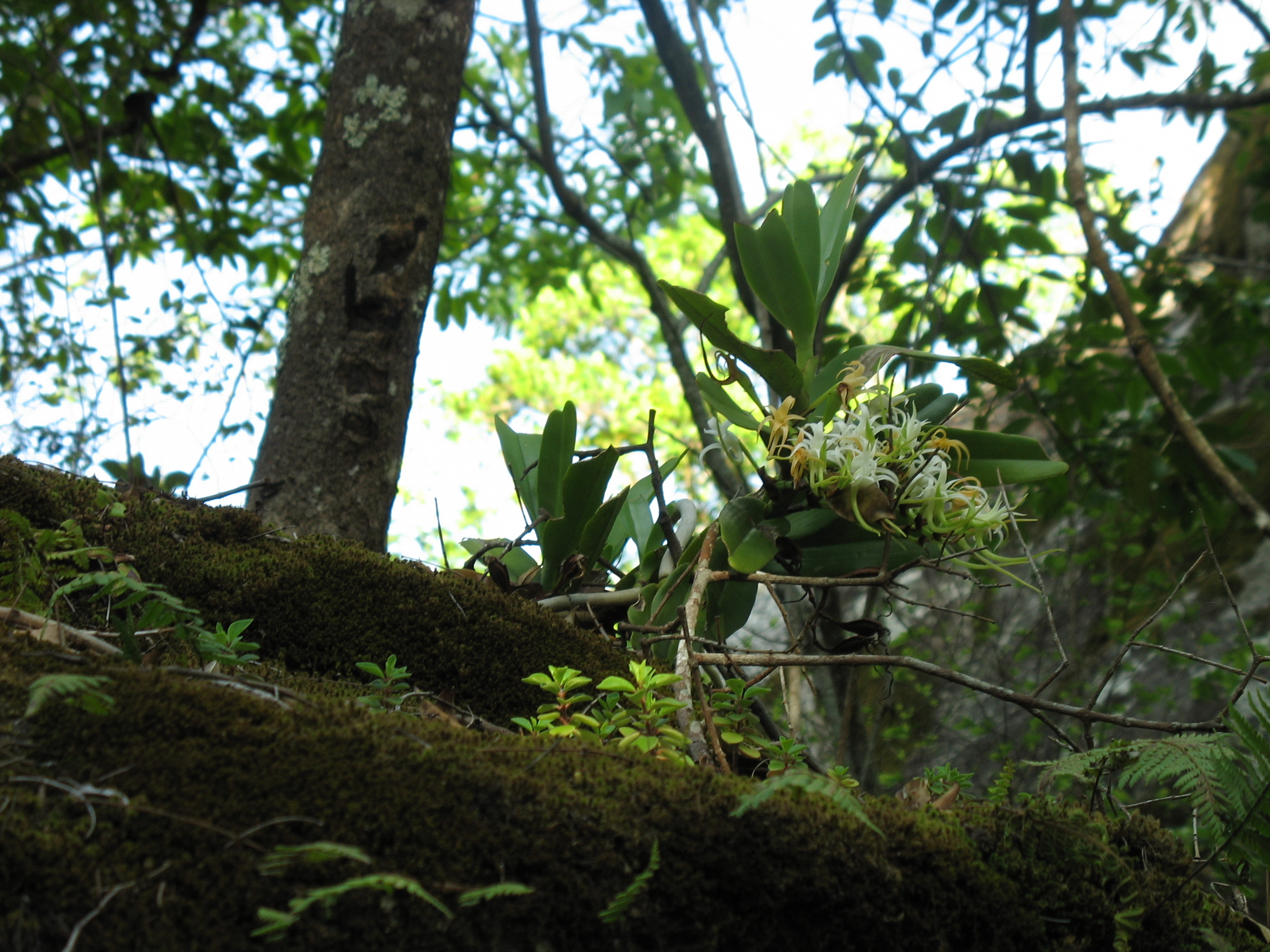 Photo of Cyrtorchis praetermissa Summerh., Kew Bull. 3: 279 (1948), growing on a rock at the foot of the Mulanje Massif in Malawi